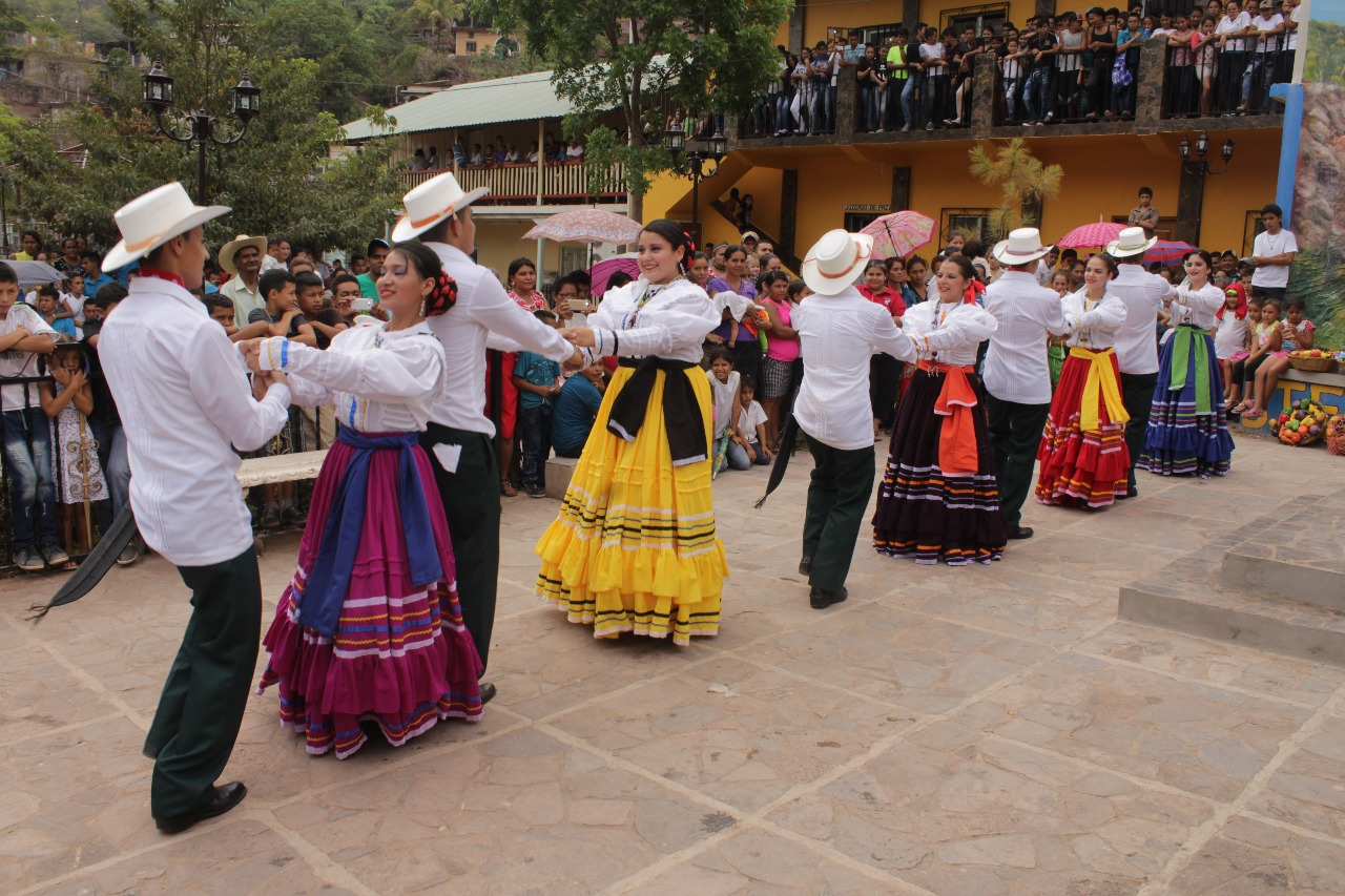 Dancers of Ballet Folklórico de Honduras Oro Lenca dancing in the 100 year anniversary celebration of the founding of the town of El Níspero, in the department of Santa Bárbara, Honduras.